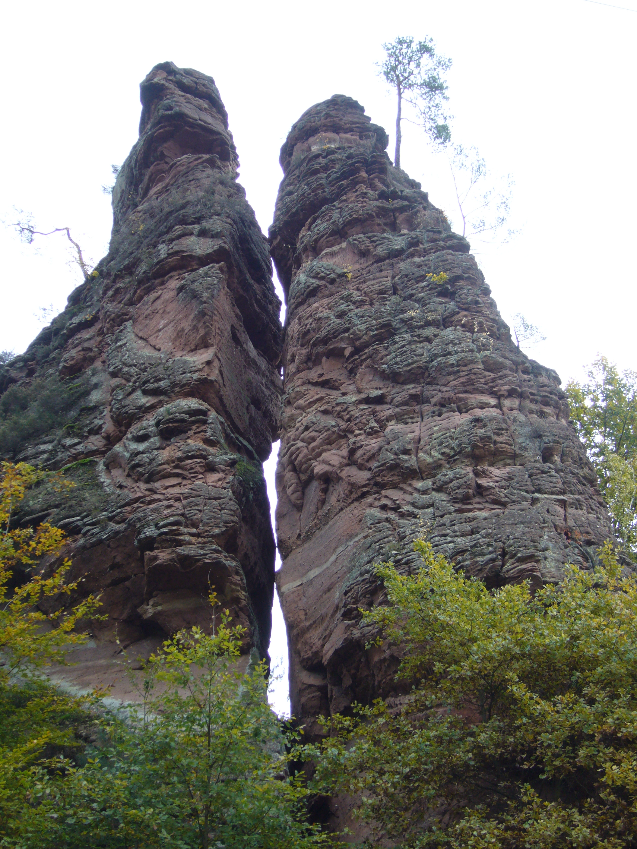 Braut and Bräutigam (Rock) in the Pfalz near Dahn (Germany).